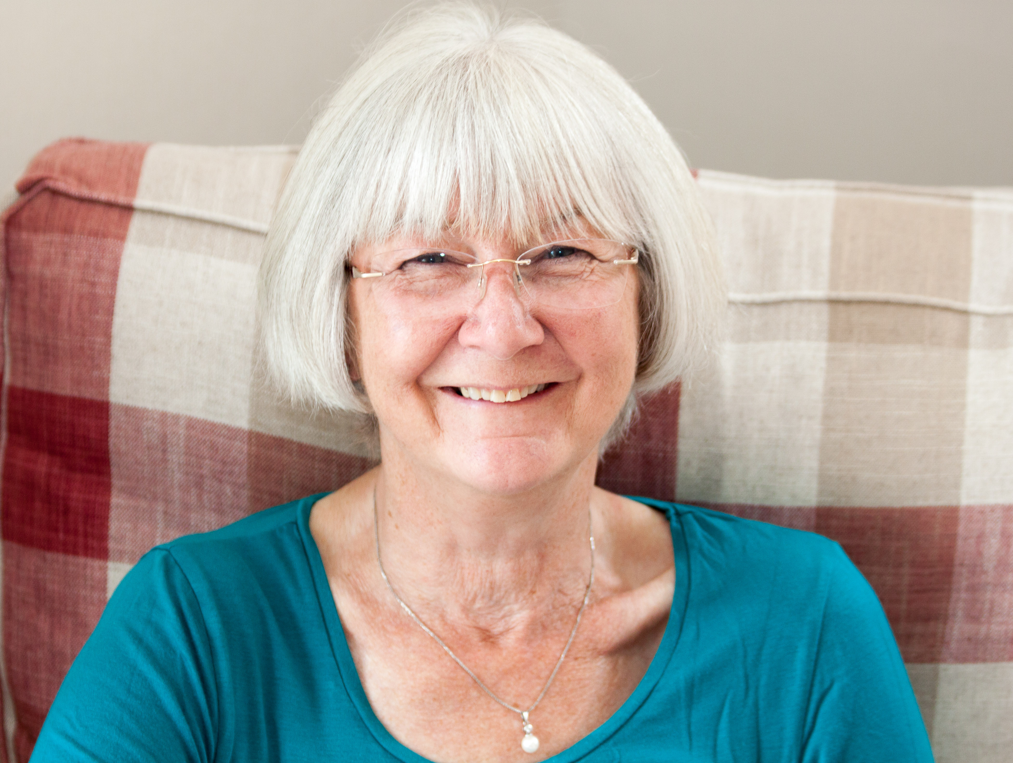 Photograph of Sue Bird, acoustics engineer